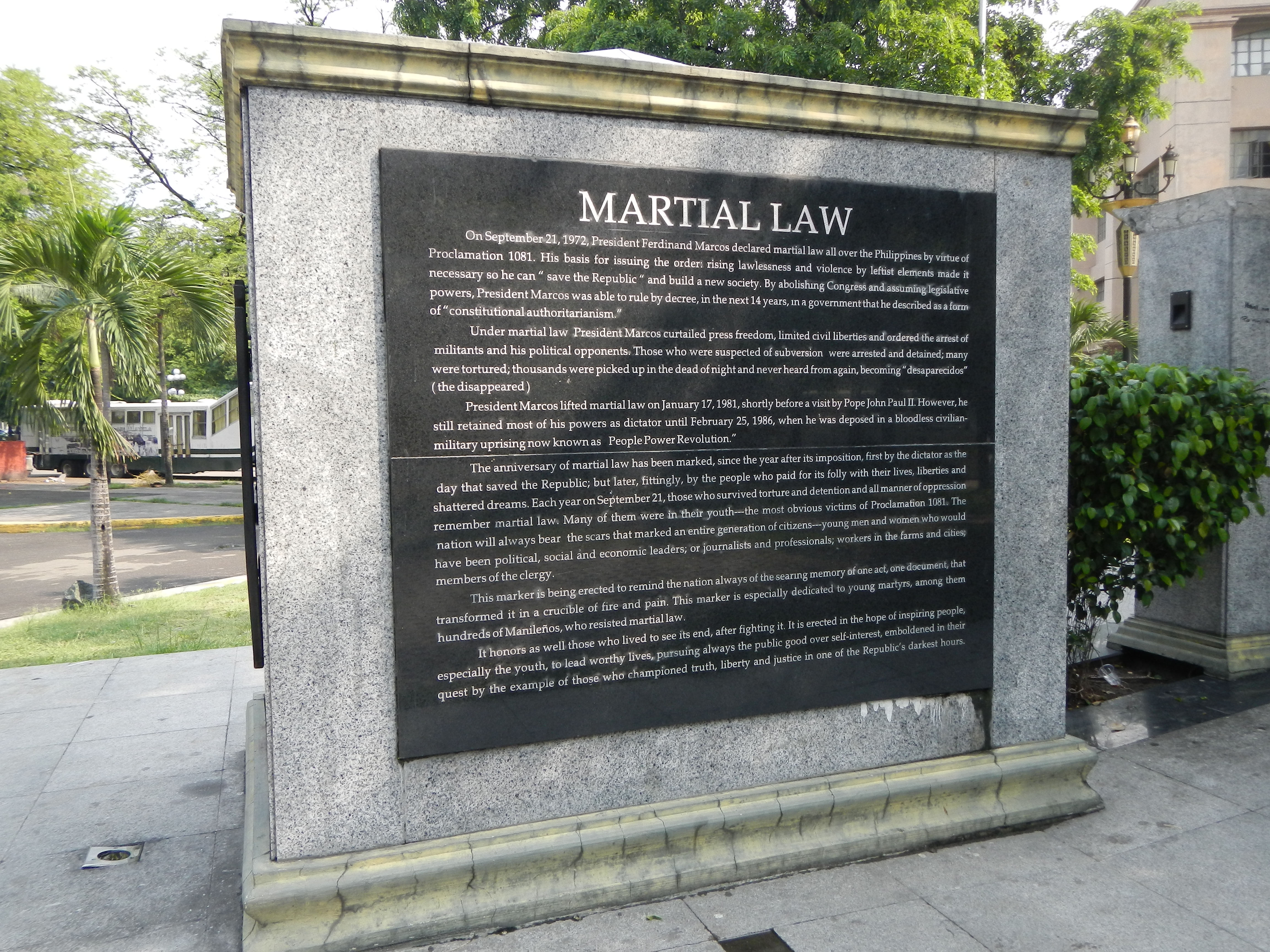 Victims of Martial law Memorial Wall, Manila by Mayor Jose L. Atienza, Jr. , September 21, 2006 inaugurated by Sen. Nene Pimentel at the inauguration on September 21, 2006 at the Mehan Gardens, Manila [1] - 39th anniversary of Martial Law[2] Memorial Wall for ML Victims Unveiled[3]Victims of Martial Law Memorial Wall is a project of the City of Manila under the leadership of Mayor Jose L. Atienza, Jr.[4] Mayor Atienza also presided over the formal renaming of Hospital St. between the Bonifacio Shrine and Universidad de Manila campus to Justice Cecilia Munoz-Palma St.[5] The Memorial Wall is 4 large blocks of black marble, where the names of martial law victims are etched. A plaque explaining the memorial is on one end. ---- Martial law in the Philippines[6] Martial law in the Philippines (Tagalog: Batas Militar sa Pilipinas) refers to the period of Philippine history wherein Philippine Presidents and Heads of state declared a proclamation to control troublesome areas under the rule of the Military, and it is usually given when threatened by popular demonstrations, or to crack down on the opposition. Martial law can also be declared in cases of major natural disasters, however most countries use a different legal construct like "state of emergency".